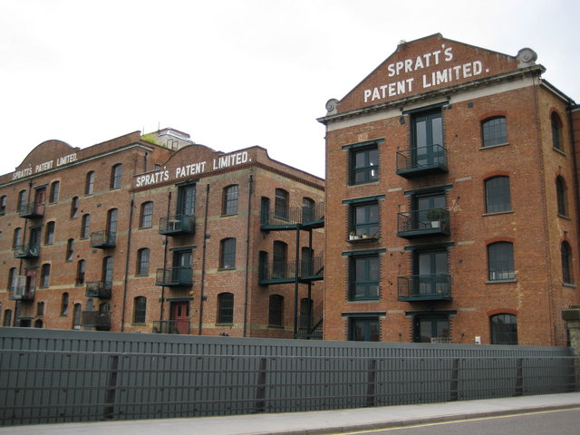 Poplar: Former Spratts' Pet Food factory (2) This is the north façade of the former pet food factory, backing onto the Limehouse Cut, and viewed from the north end of the road bridge over the cut.